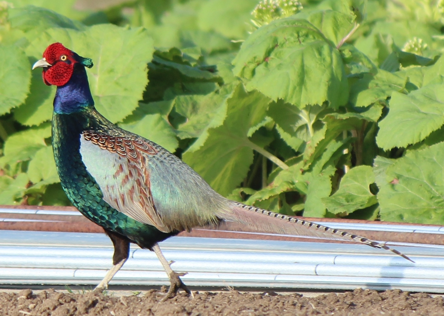 Phasianus versicolor (Green Pheasant, Phasianus colchicus versicolor), male walking in field of Japan